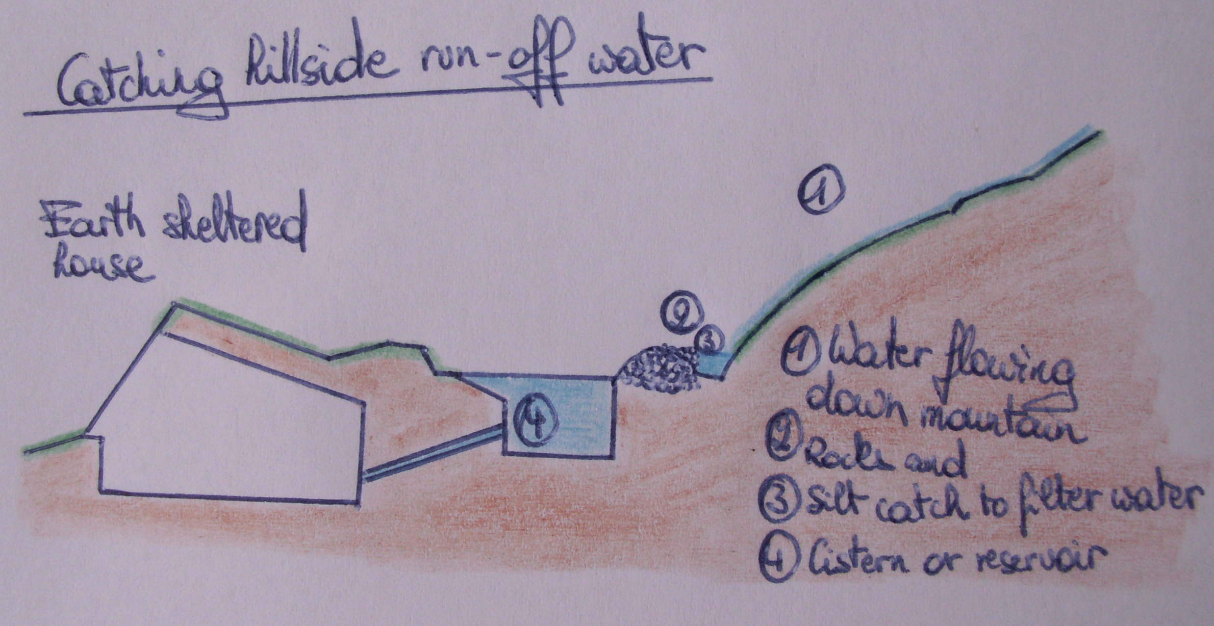 Schematic showing how to catch rainwater from hillsides. The schematic shows a regular used regular filter in place to remove the water from large impurities/sediment. Aldough here, a regular/simple filter is used, filters with large rocks, followed by small rocks, gravel and then again large rocks stacked to a dam may also be used. The schematic is hand-drawn based on a picture from the book "Earthship Volume 2:Systems and components" by Michael Reynolds